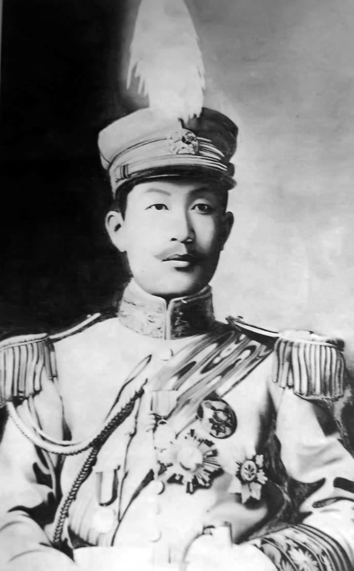 Cai E (1882 - 1916)